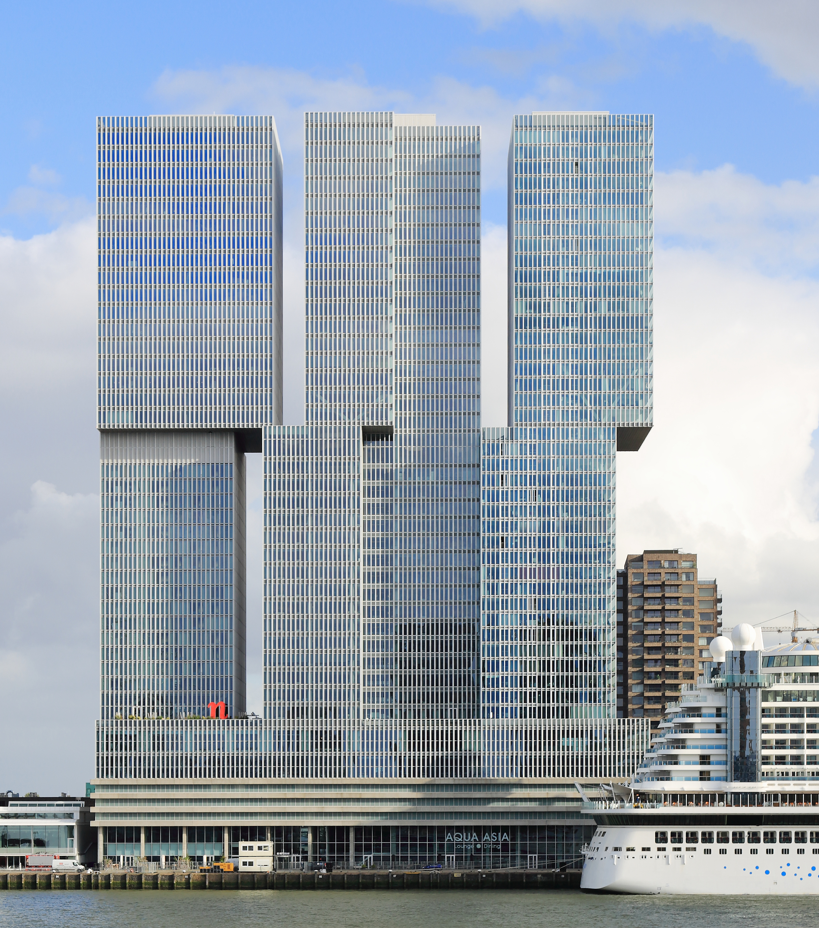 De Rotterdam is a building on the Wilhelminapier in the Kop van Zuid district in Rotterdam, designed by the Office for Metropolitan Architecture in 1998.